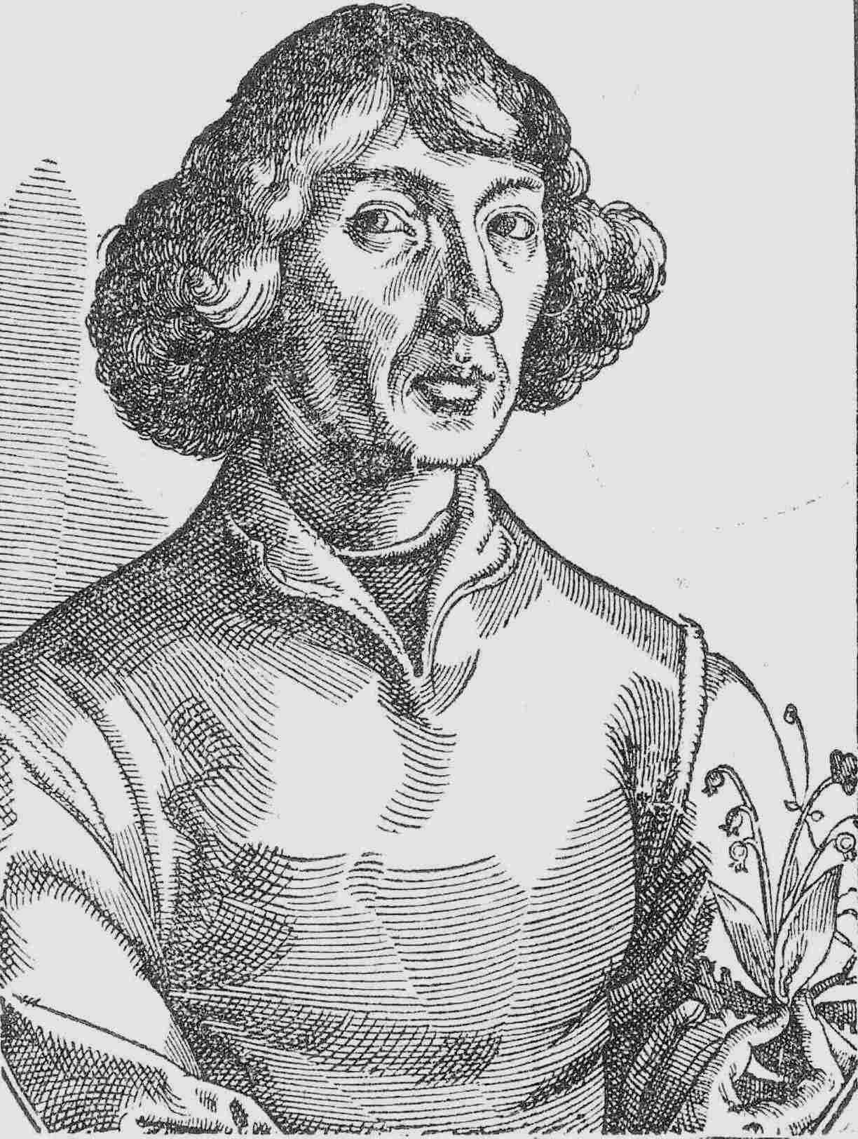 portrait of Copernicus, woodcut attributed to Christoph Murer, from Nicolas Reusner's Icones (1587). This is a work in the viri clarissimi, based on the original edition of Giovio (Venice 1546). Giovio's edition did not contain a portrait of Copernicus, and neither did subsequent editions until 1575. The Basel publisher Piero Pierna sent painter Tobias Stimmer to Como in order to produce sketches of the portraits in Giovio's book. Stimmer apparently also acquired a portrait of Copernicus, allegedly based on a self-portrait by Copernicus. Stimmer painted the oldest known portrait of Copernicus on Strasbourg astronomical clock in c. 1571/4. Stimmer's portrait shows Copernicus holding a lily of the valley. The earliest appearance of a portrait of Copernicus in print is Reusner's Icones, printed in Strasbourg in 1587. Tobias Stimmer was involved in this production, and the portraits are based on his sketches, but Stimmer died in 1584, before the work was completed, and the execution of the actual woodcut is attributed to Christoph Murer. Andreas Kühne, Stefan Kirschner, Biographia Copernicana: Die Copernicus-Biographien des 16. bis 18. Jahrhunderts (2004), p. 14